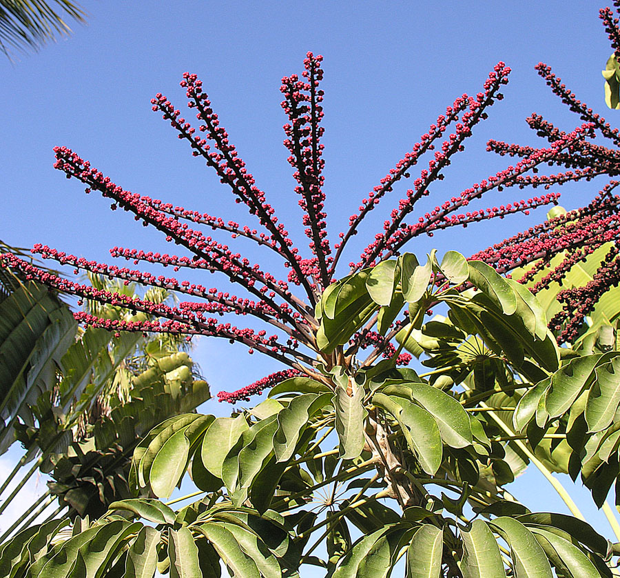 Schefflera actinophylla